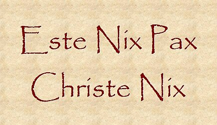 Illustration for "Limburg Latin", it looks like text in latin, but if you pronounce it you have text in the Limburg dialect (Dutch) "if you don't take anything, you won't get anything"